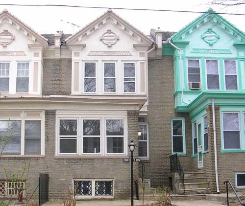 Most common style of brick rowhouse in West Phila. Image I took while househunting